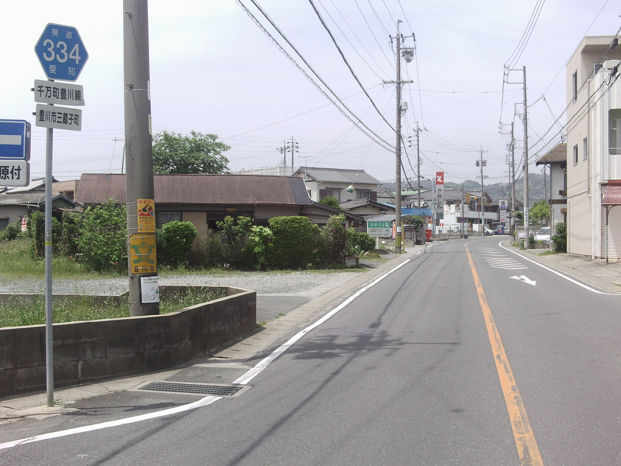 Aichi prefectural road No.334 in Sanzogocho, Toyokawa, Aichi.